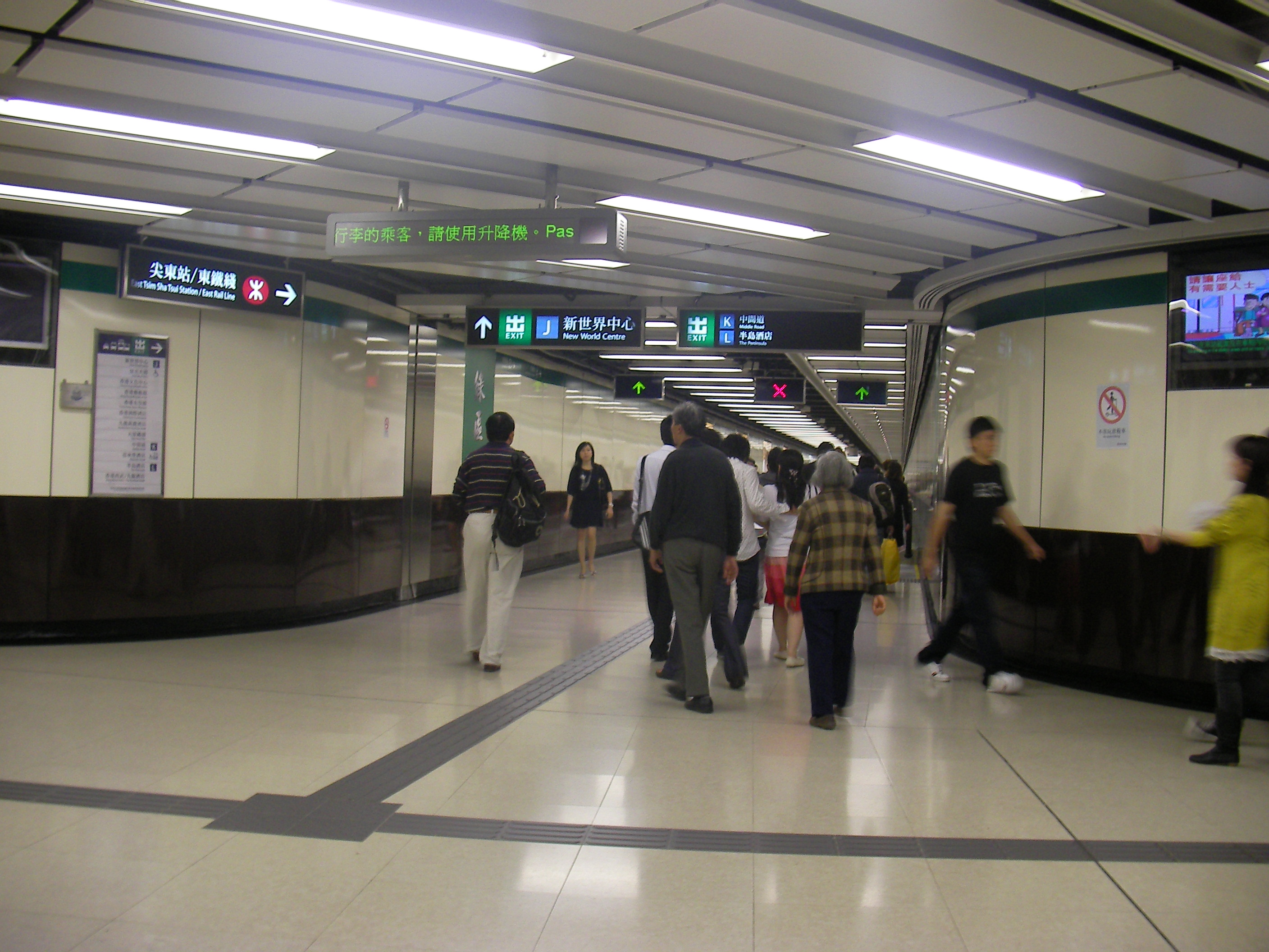 MTR East Tsim Sha Tsui Station Blemheim Avenue Subway